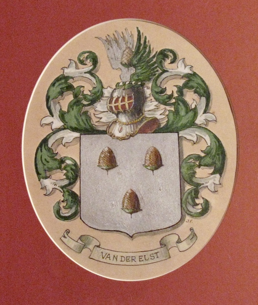 Family crest van der Elst